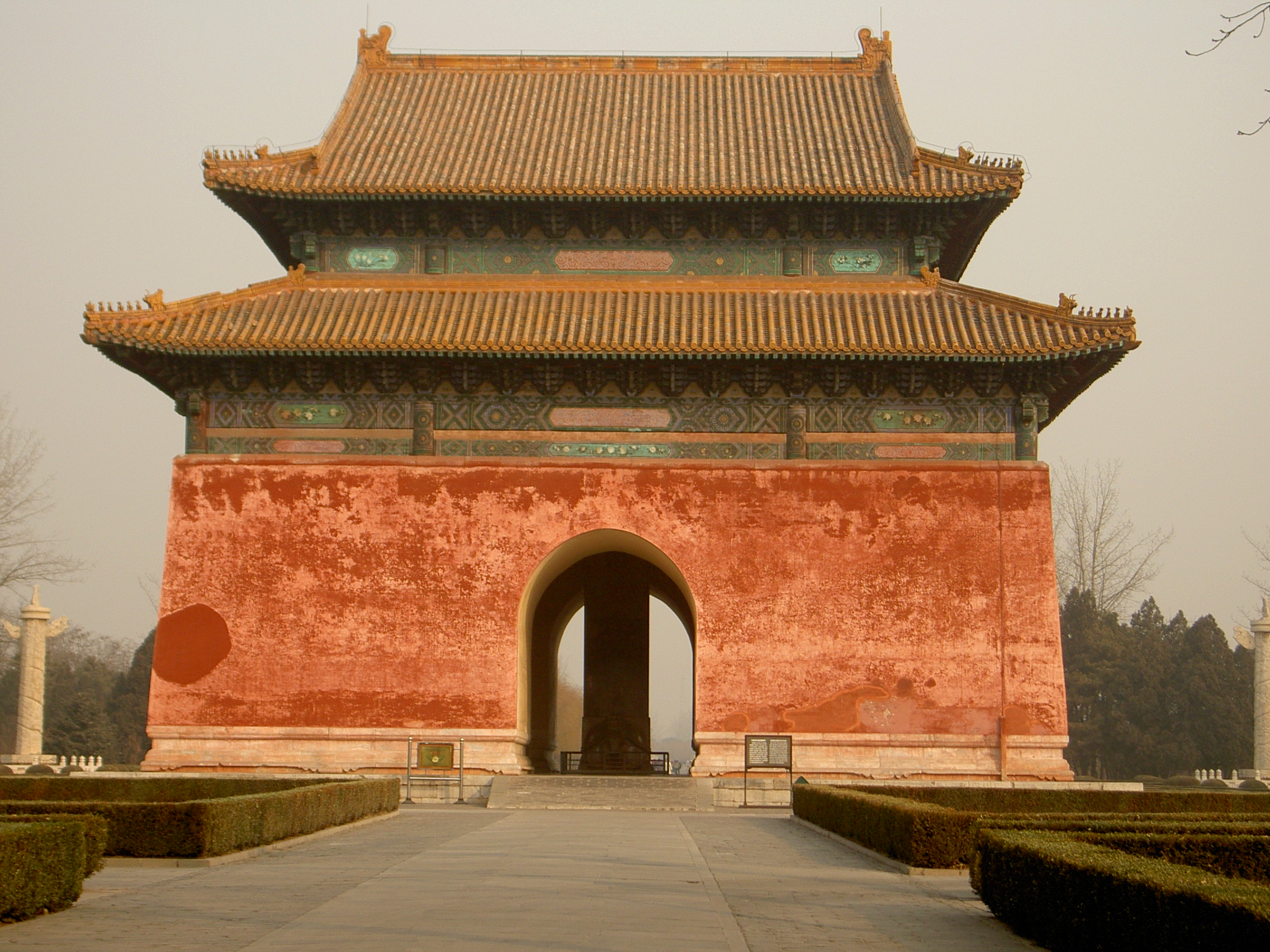 Pavilion with "ways of souls" a turtle-borne stele at the tombs of the Emperors of the Ming Dynasty (AD 1368 to 1644). 50km north west of Beijing, in Changping.